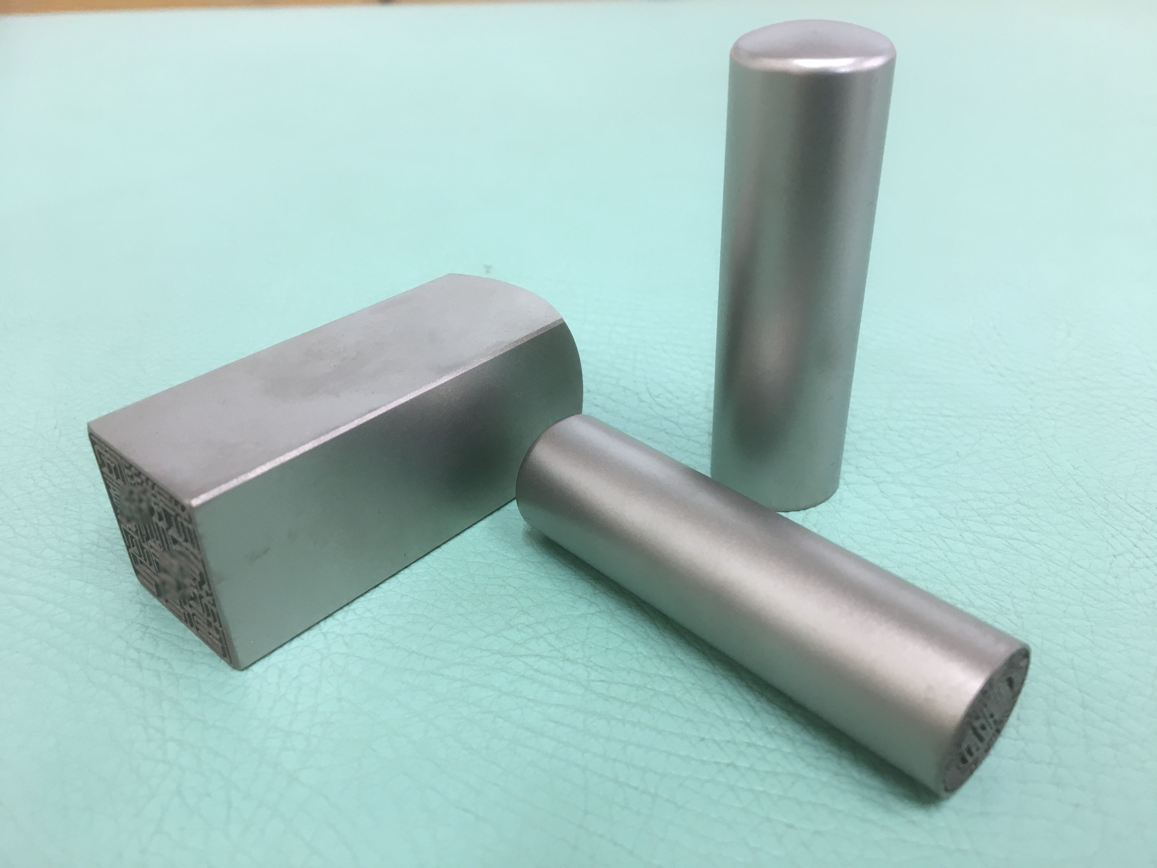 titanium seals made in Japan. A square seal for corporations, a seal for bank accounts(middle), a generaluse seal(small)